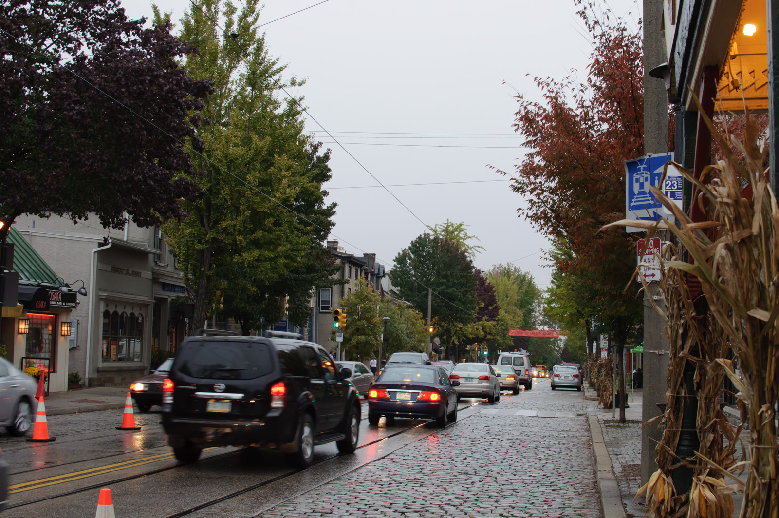 I am on Germantown Avenue in Chestnut Hill, awaiting the No. 23 service to return to Center City. The No. 23 used to be a streetcar service, whose tracks are still visible here, but the service has been run with buses since the early 1990s. Upper-middle class Chestnut Hill, at the northwestern city limits, was the 19th Century version of an exurb, connected to Philadelphia by two rail lines and this trolley line, but otherwise a world away from the bustle of Center City. It certainly is a very nice diversion from the rest of Philadelphia, and certainly off the beaten path.